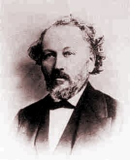 Portrait of Ernst Buresch